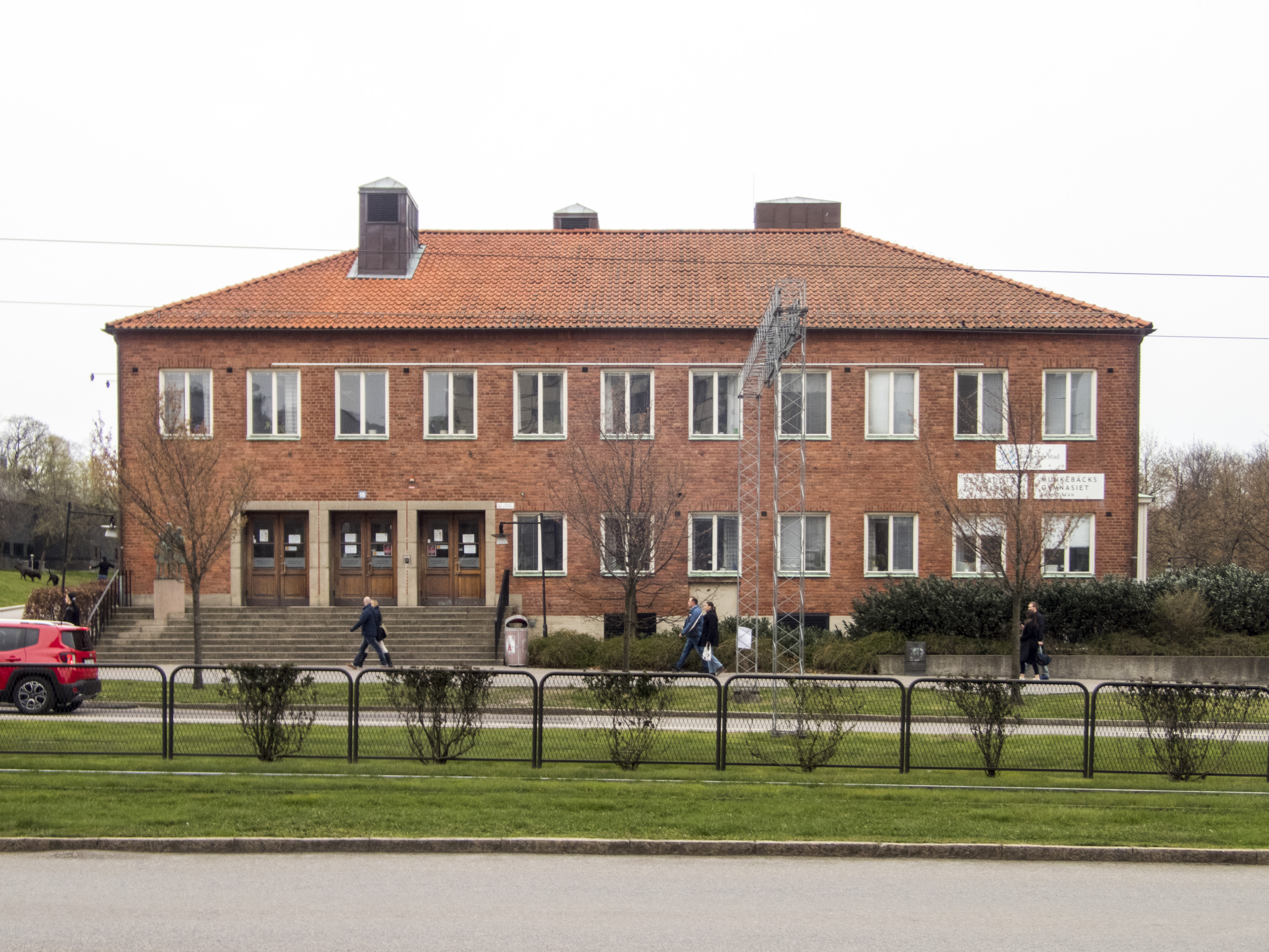 Munkebäcksgymnasiet, Skånegatan 18, Göteborg. Byggnaden ursprungligen uppförd för Vasa kommunala flickskola 1949. Arkitekt Erik Ragndal